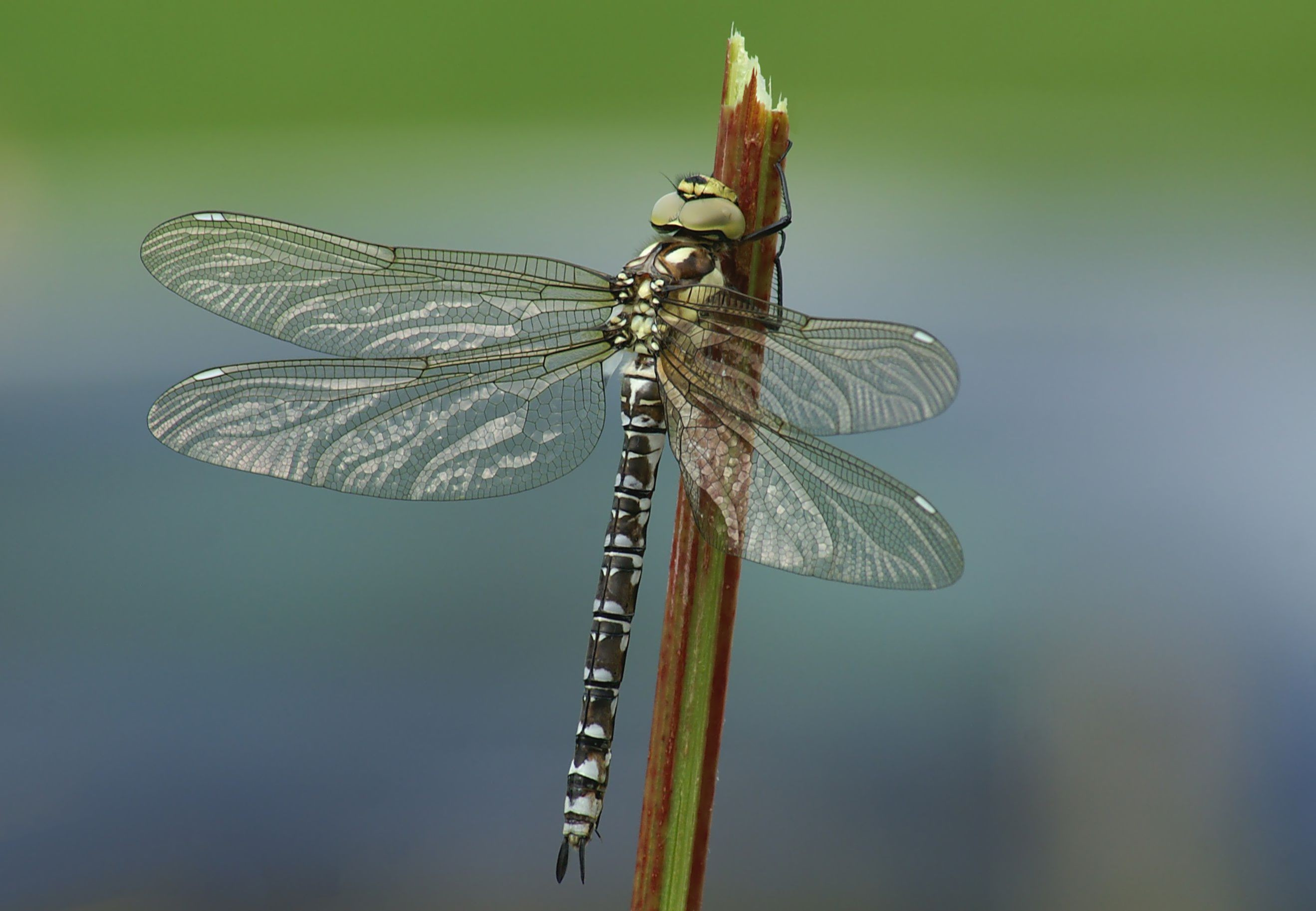 Southern Hawker (Aeshna cyanea).